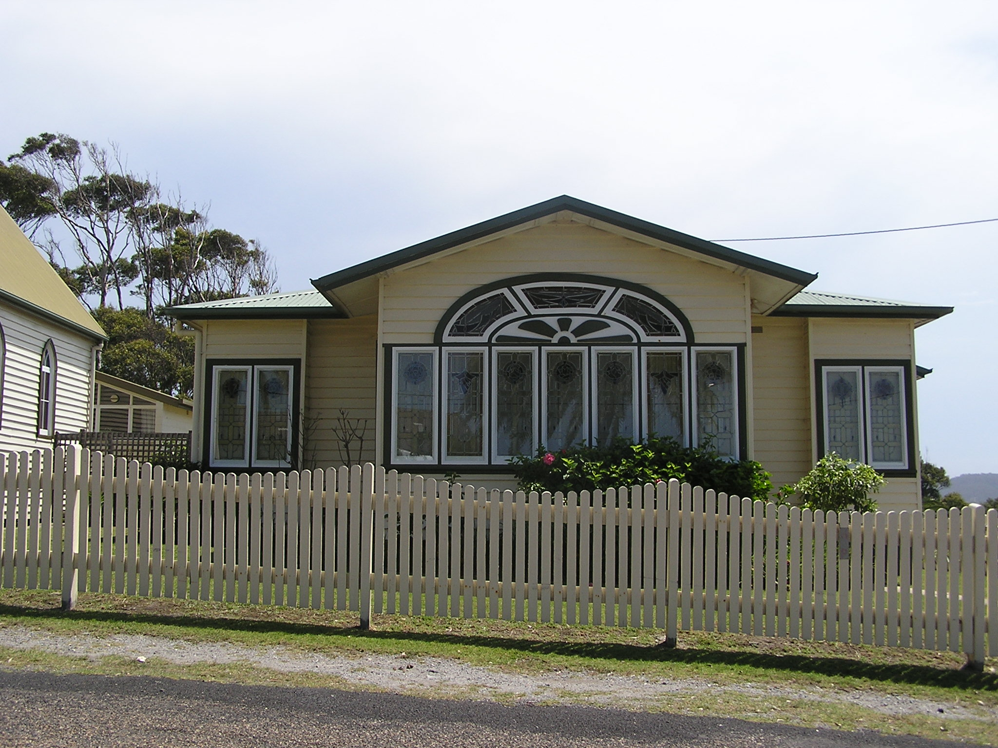 The parsonage for the Narooma, New South Wales Uniting (formerly Methodist) Church on the Princes Highway dates from 1914. It is regarded as an excellent example of the Australian Federation Carpenter Gothic architectural style.[1] Picture by AYArktos